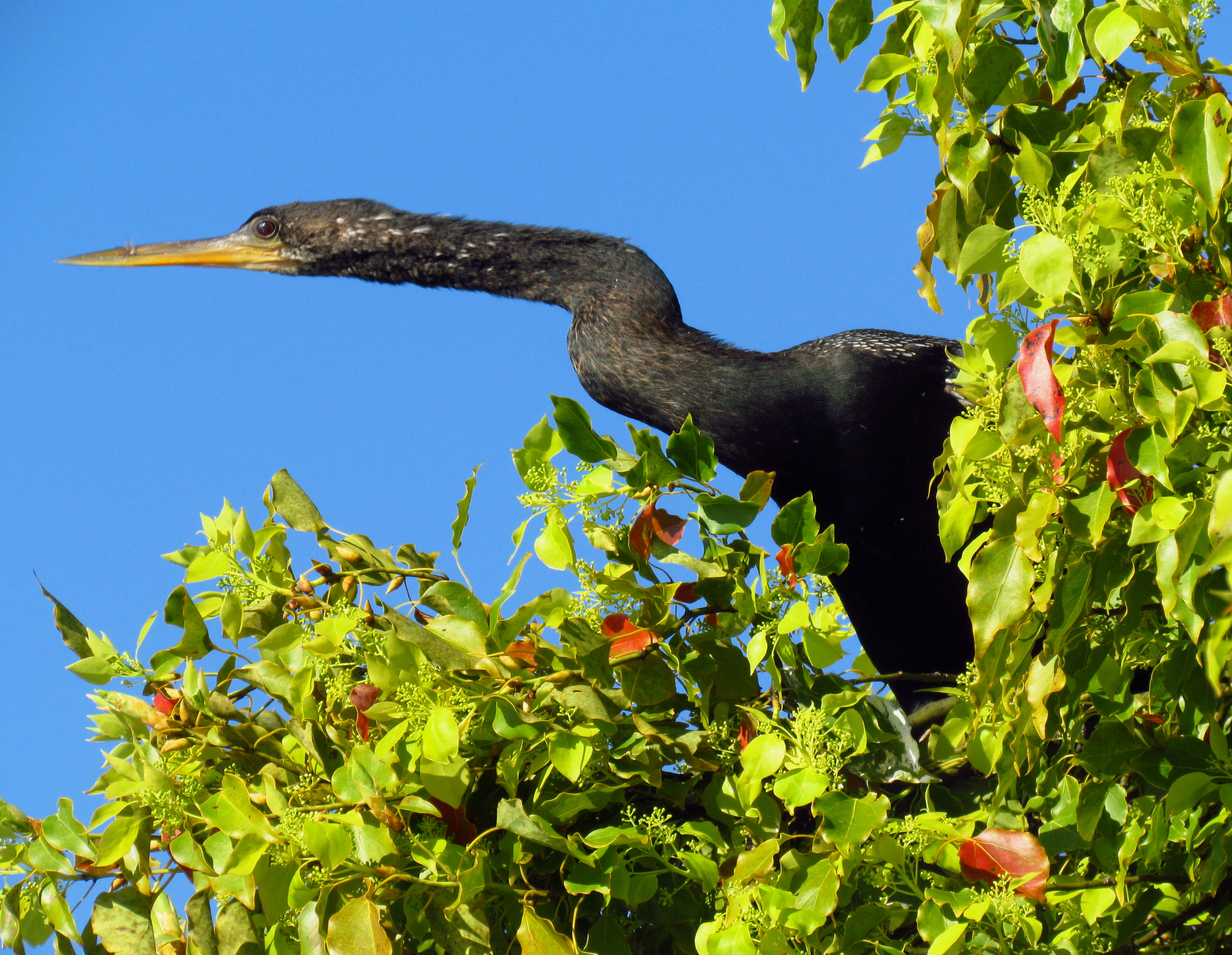 Anhinga (Anhinga anhinga), in tree, Venice, Florida